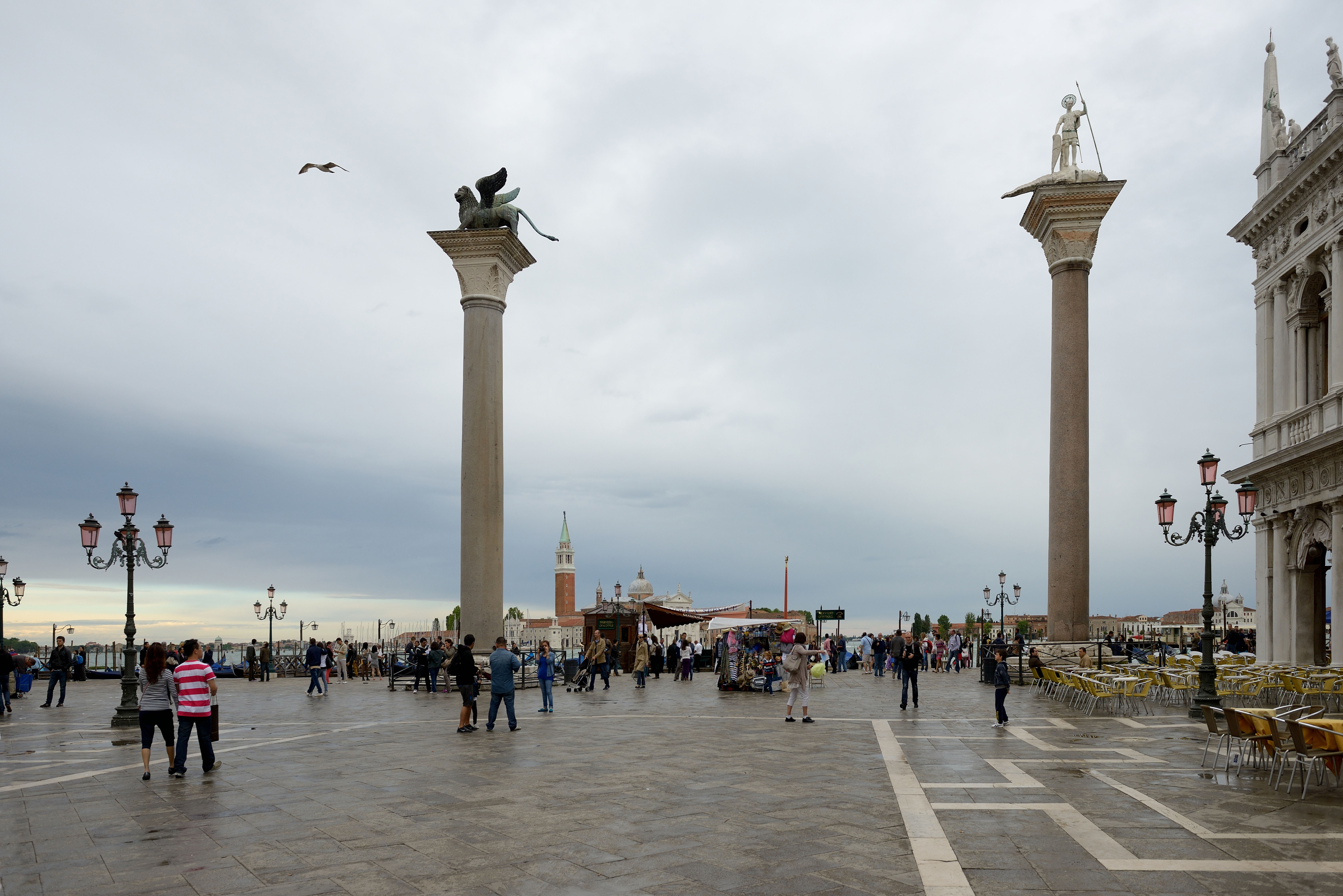 View of Piazzetta San Marco square in Venice